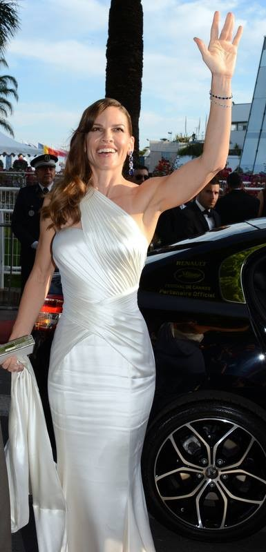 Hilary Swank at the Cannes Film Festival